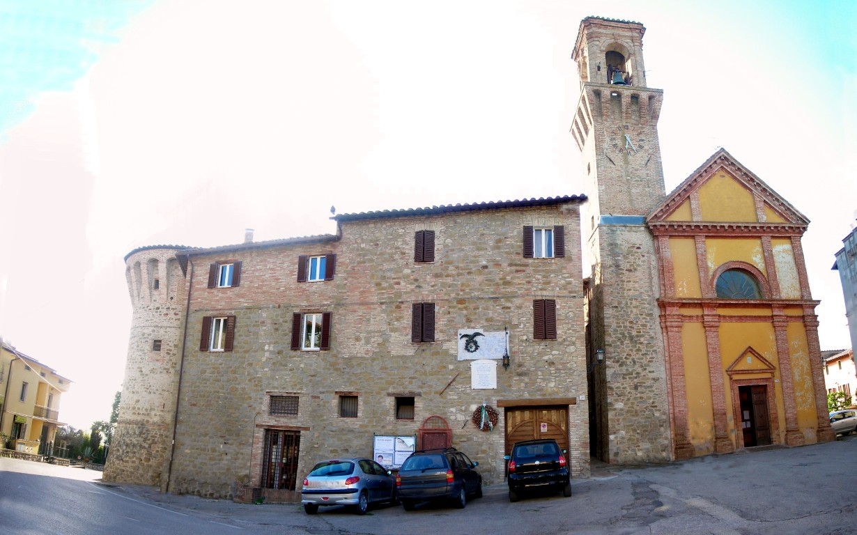 main church of St. Egidio, Perugia, Umbria, Italy